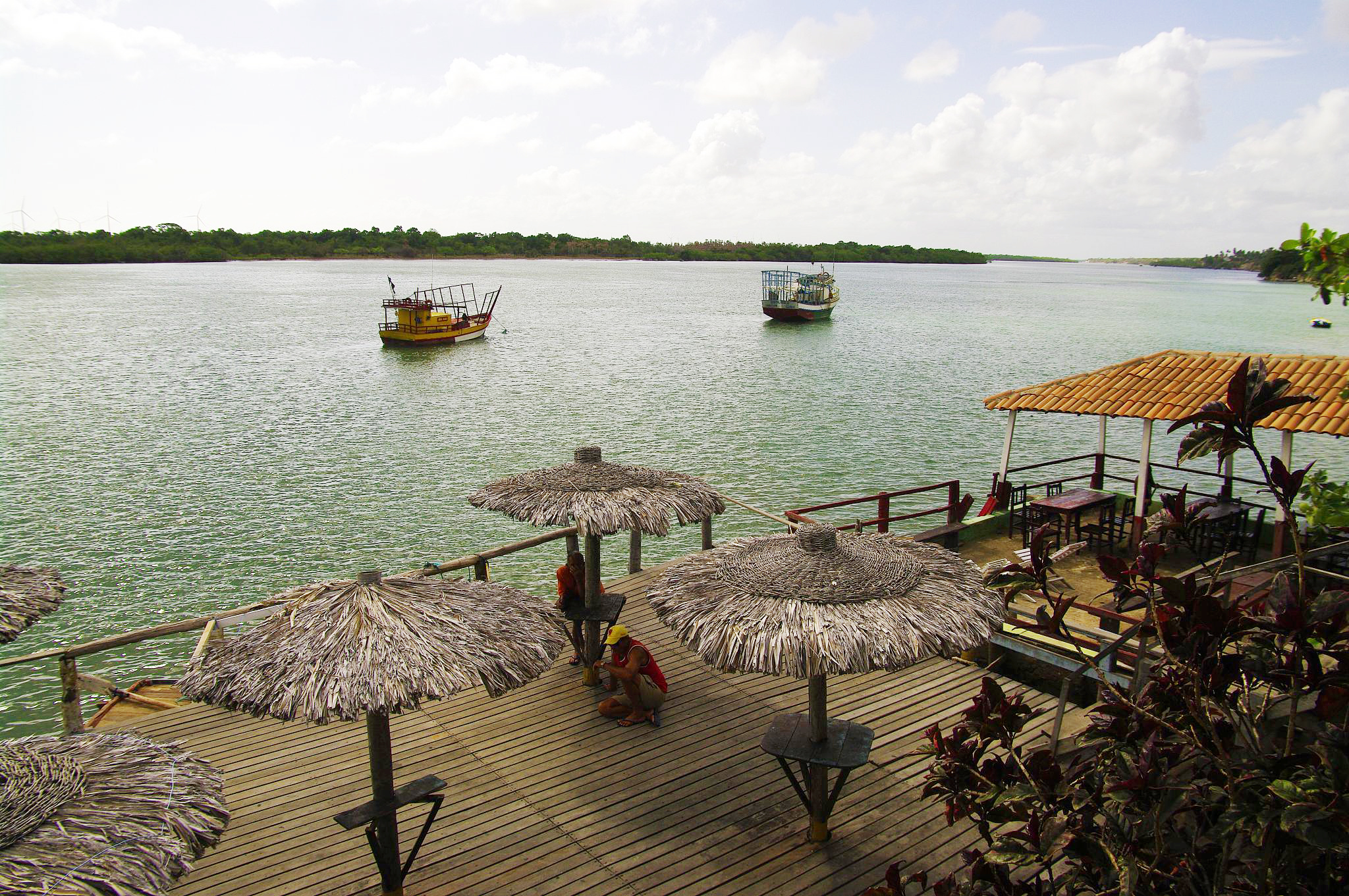 Rio Jaguaribe em Fortim (1)